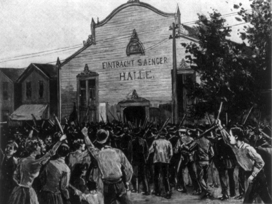 "The Mob Assailing the Pinkerton Men on Their Way to the Temporary Prison". Illus. in: Harper's Weekly, 1892 July 16.